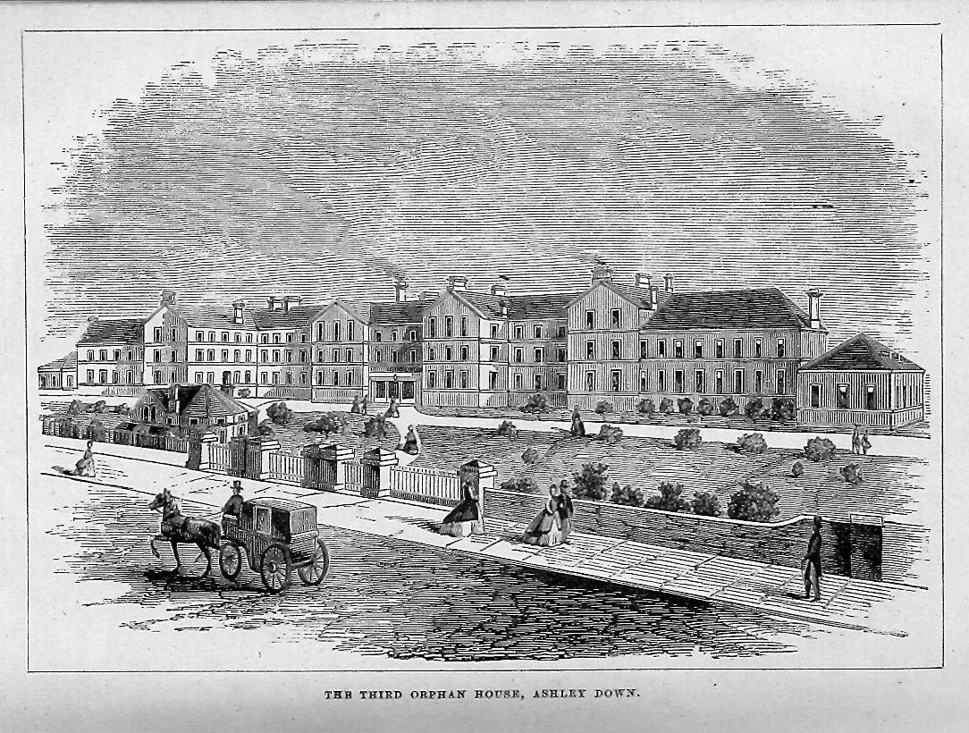 Line drawing of No 3 House